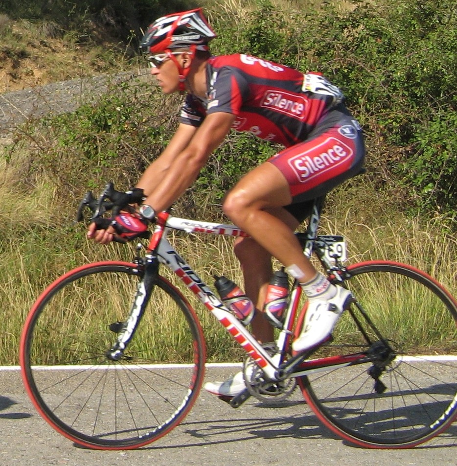 Greg Van Avermaet, 2008 Vuelta a España, 9th stage, Alto Gallego, Spain.